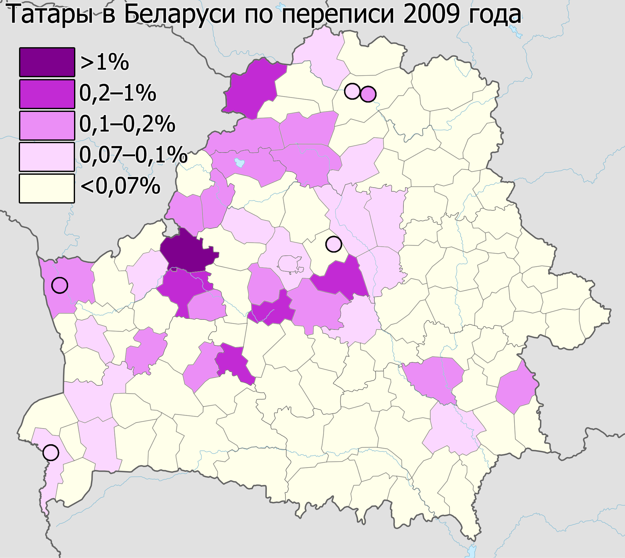 Tatars in Belarus according to 2009 census